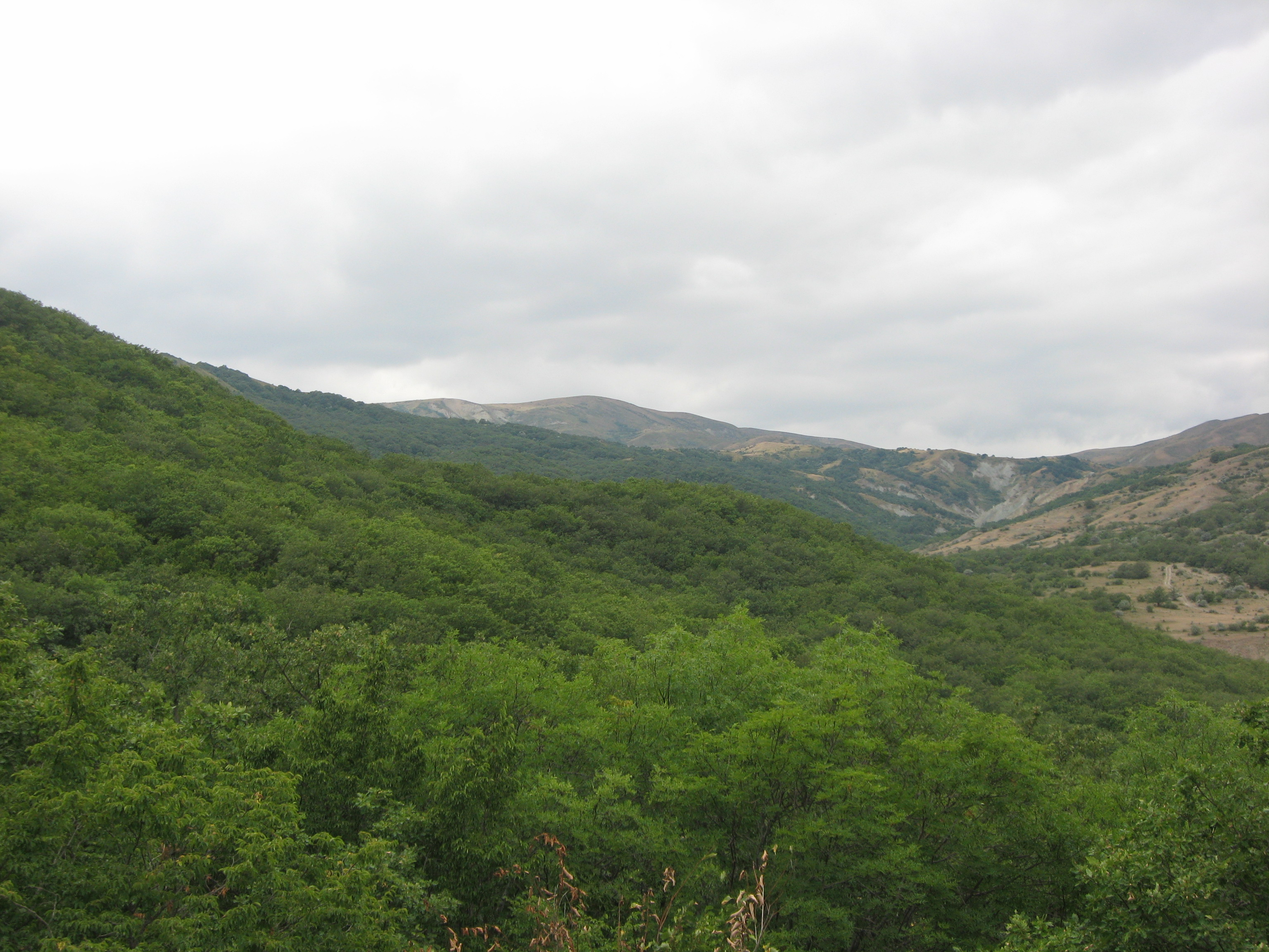 Altyaghach National Park